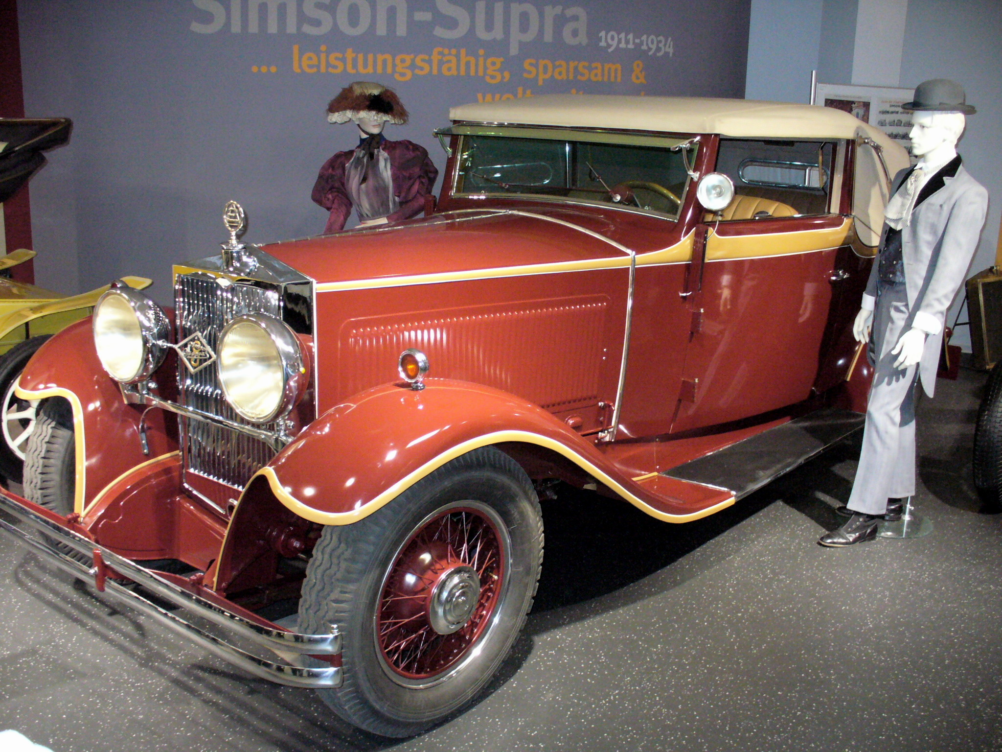 Simson Supra Type A Straight Eight in the new opened "Fahrzeugmuseum Suhl"